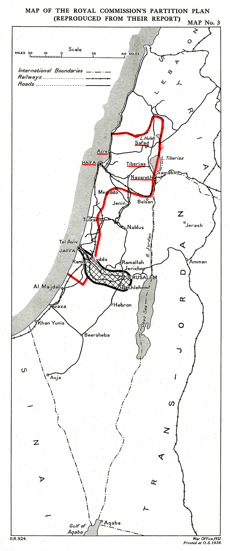 Provisional frontiers of the Palestine partition according to the Palestine Royal Commission (Peel report)